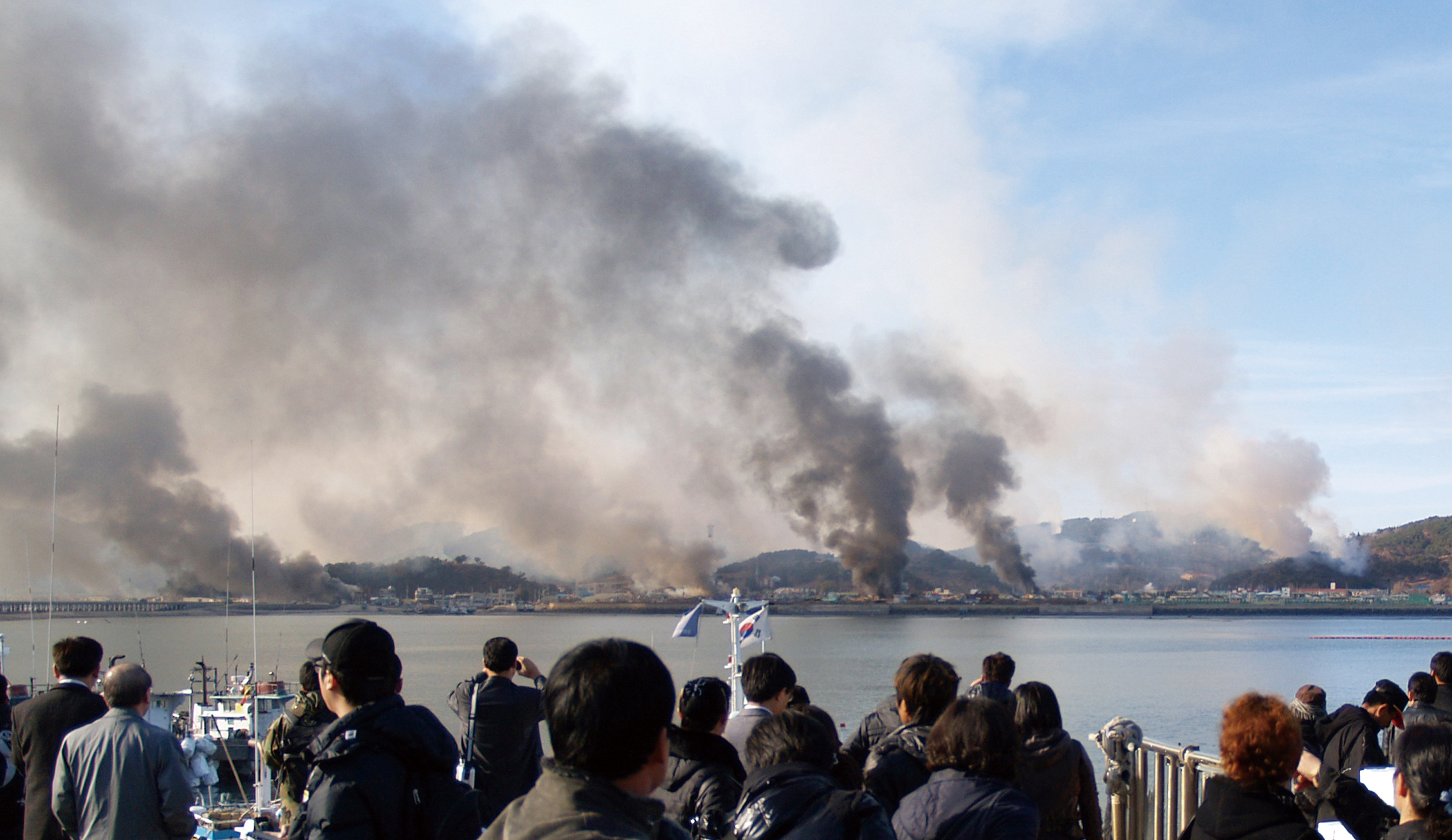 2010 국방화보 Rep. of Korea, Defense Photo Magazine 11월 23일 인천시 옹진군 연평도에 북한이 발사한 포탄 수십 발이 떨어져 연평도 곳곳이 불타고 있다. Yeonpyeong-do on fire cause by the brutal attack of North Korea’s shelling, November 23.